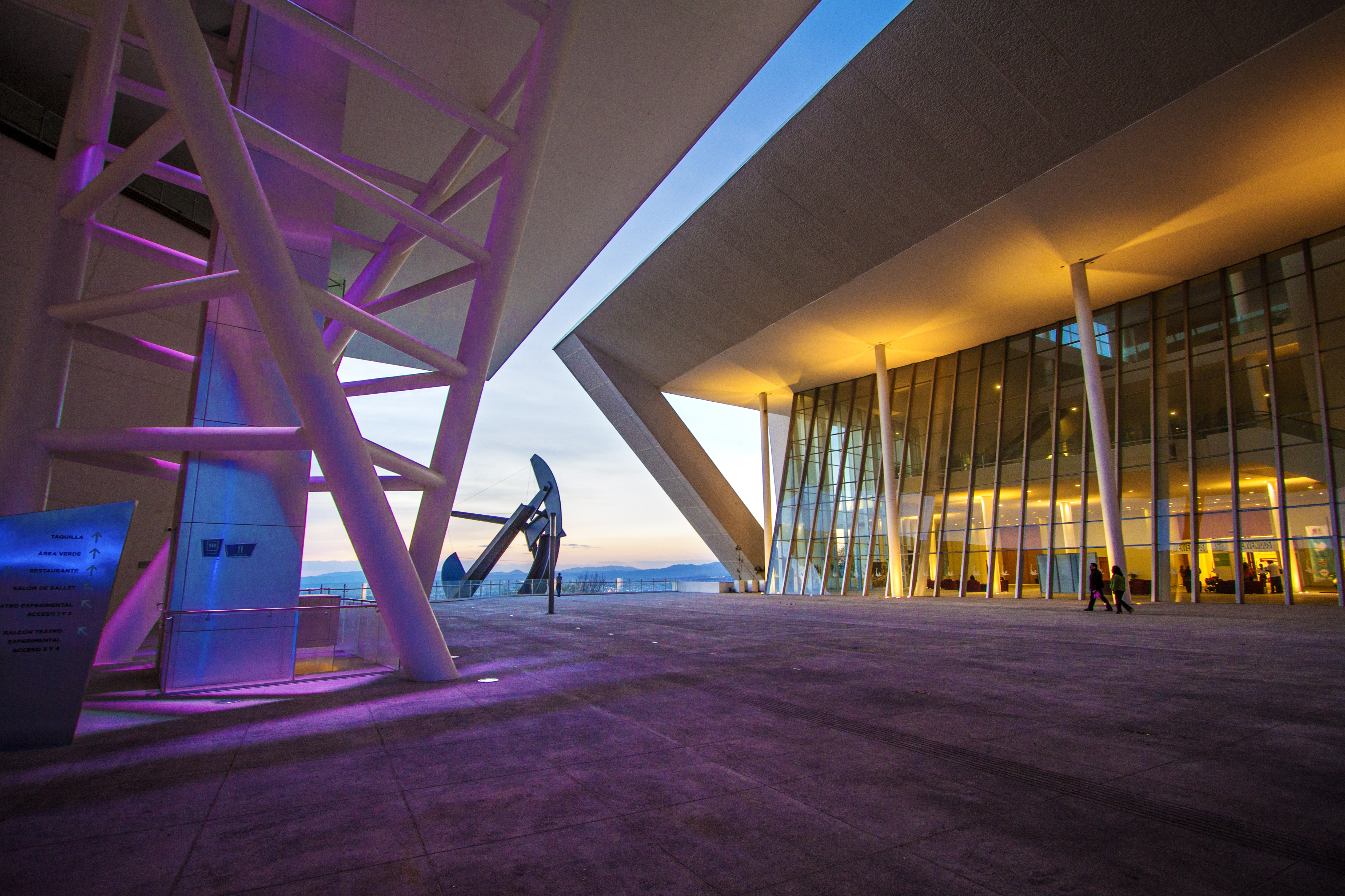 Santiago de Querétaro